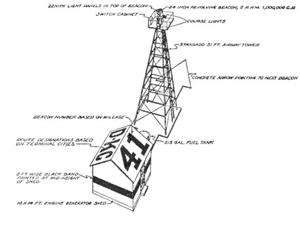 Illustration of Airway beacon